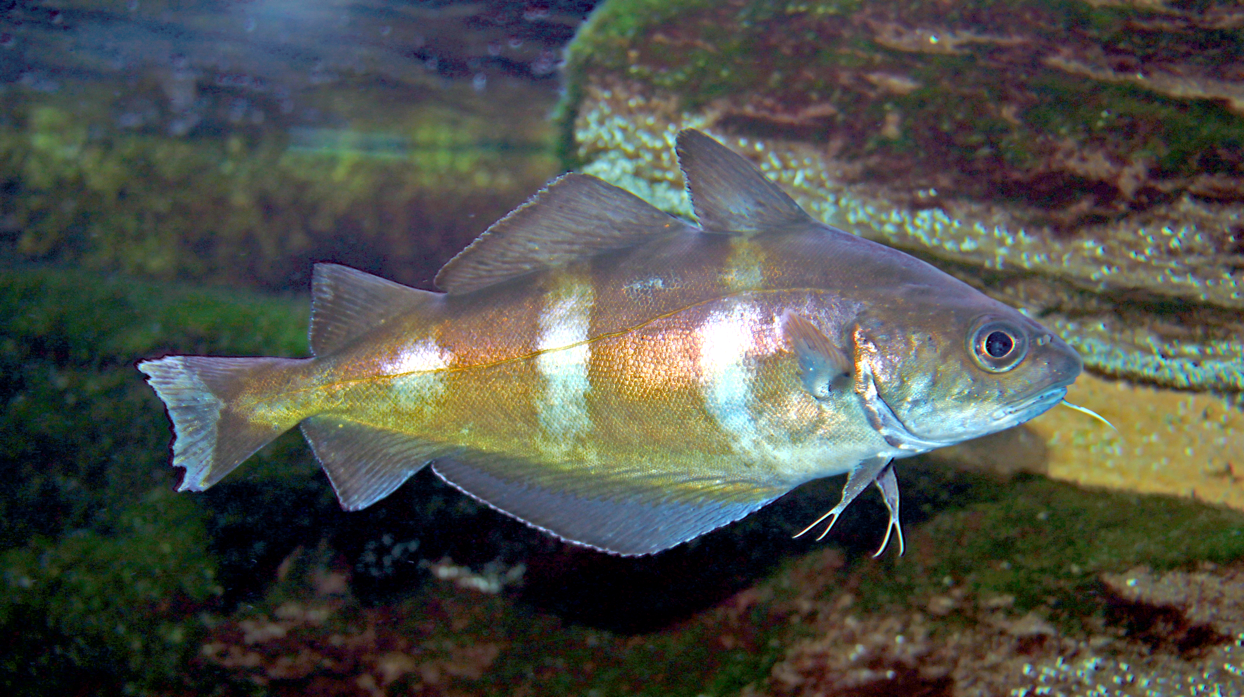 Pouting; Wilhelma Zoo, Stuttgart, Germany.